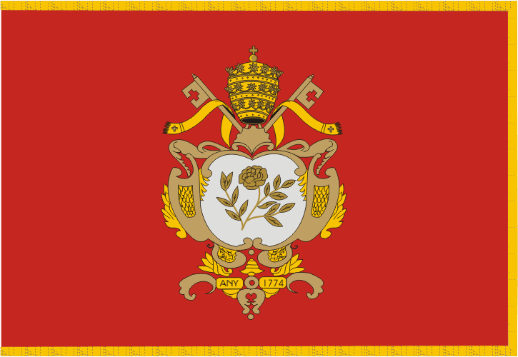 Bandera de Reus 1774-1943 per J. Ollé This image was moved to Commons by User:Iradigalesc (here: Iradigalesc) with the tool CommonismNow.